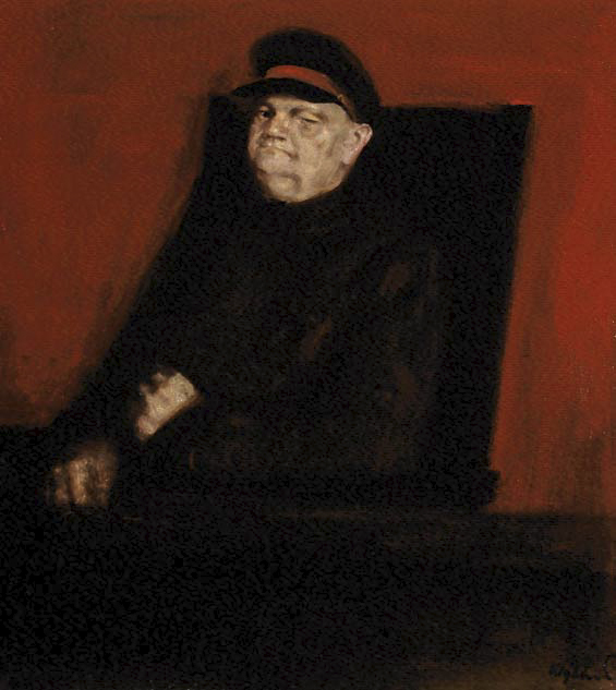 Igor Gubskiy artwork - The watchman. 1987.130x135. Canvas, oil. Collection of the State Tretyakov Gallery (Moscow, Russia).